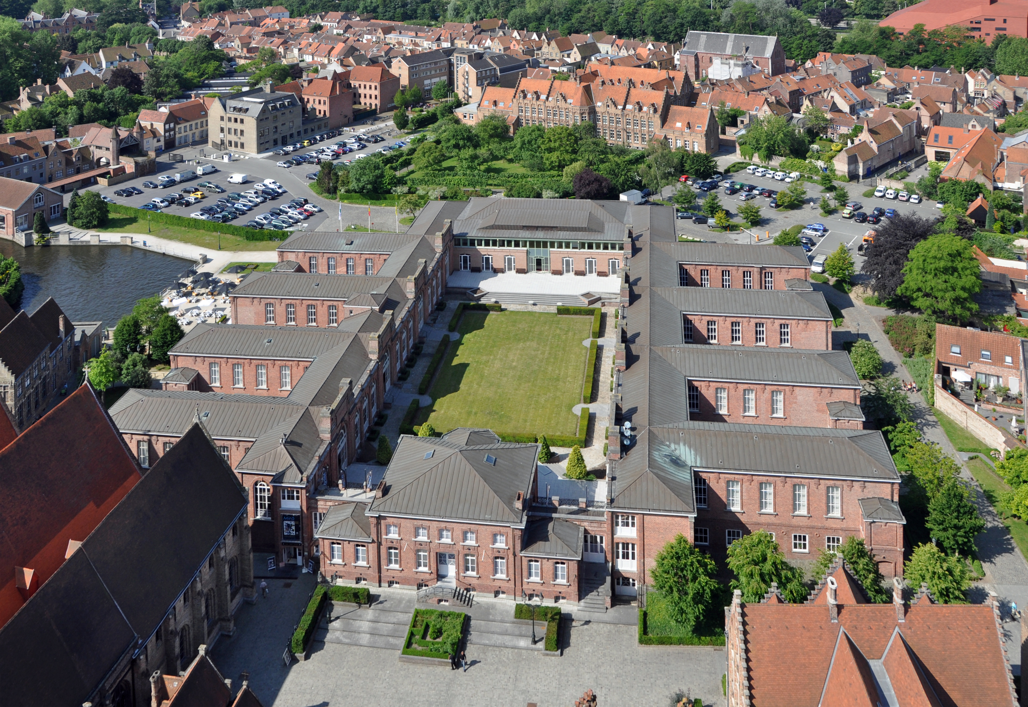 Bruges (Belgium): St John's Hospital, 19th century wards